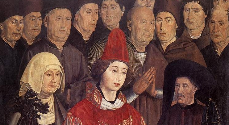 Detail from Altarpiece of Saint Vincent, the panel of the Infants, Museu Nacional de Arte Antiga, Lisbon In the middle St. Vincent and right Henry the Navigator